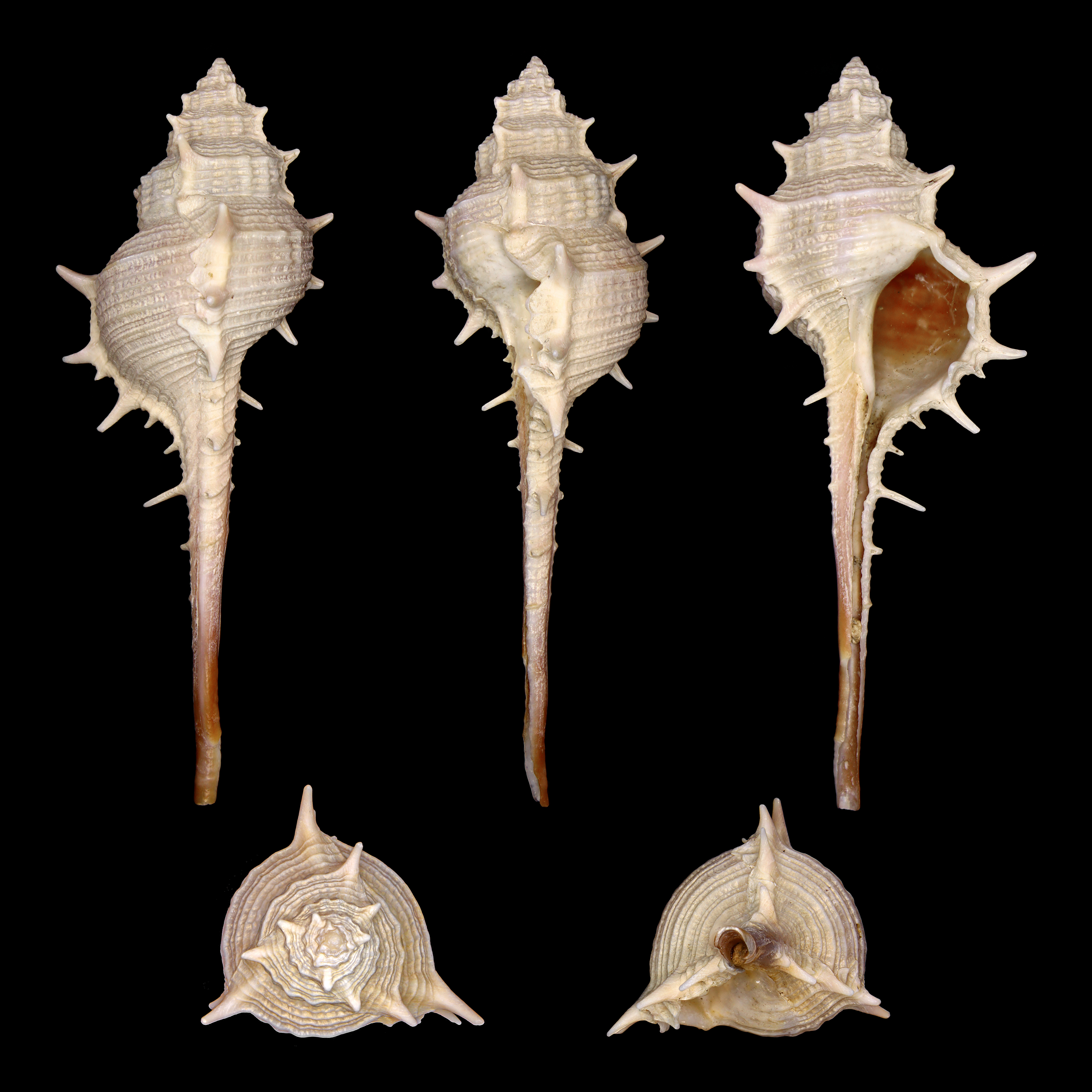 Rare-spined Murex, Muricidae; Length 10 cm; Southwest Coast of Koh-Phangan Island, Thailand; Shell of own collection, therefore not geocoded. Dorsal, lateral (right side), ventral, back, and front view.